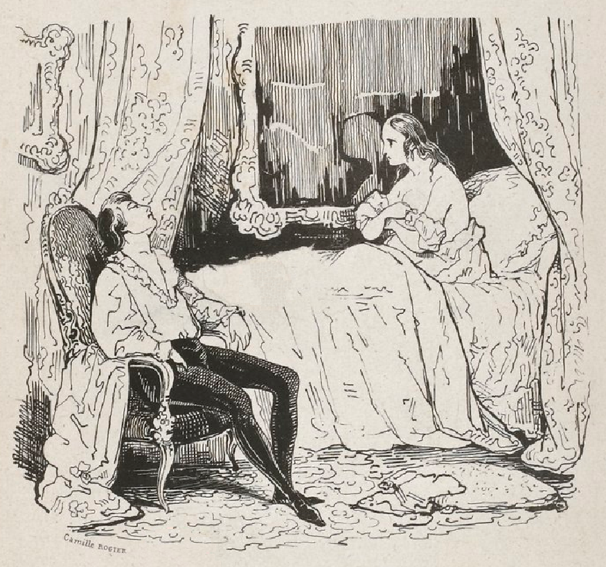 drawing by Camille Rogier to illustrate the novel Un roman pour les cuisinières (Émile Cabanon), Paris, 1834, page 2